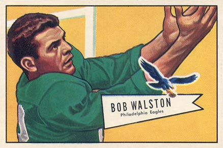 American football player Bobby Walston on a 1952 Bowman Large card.